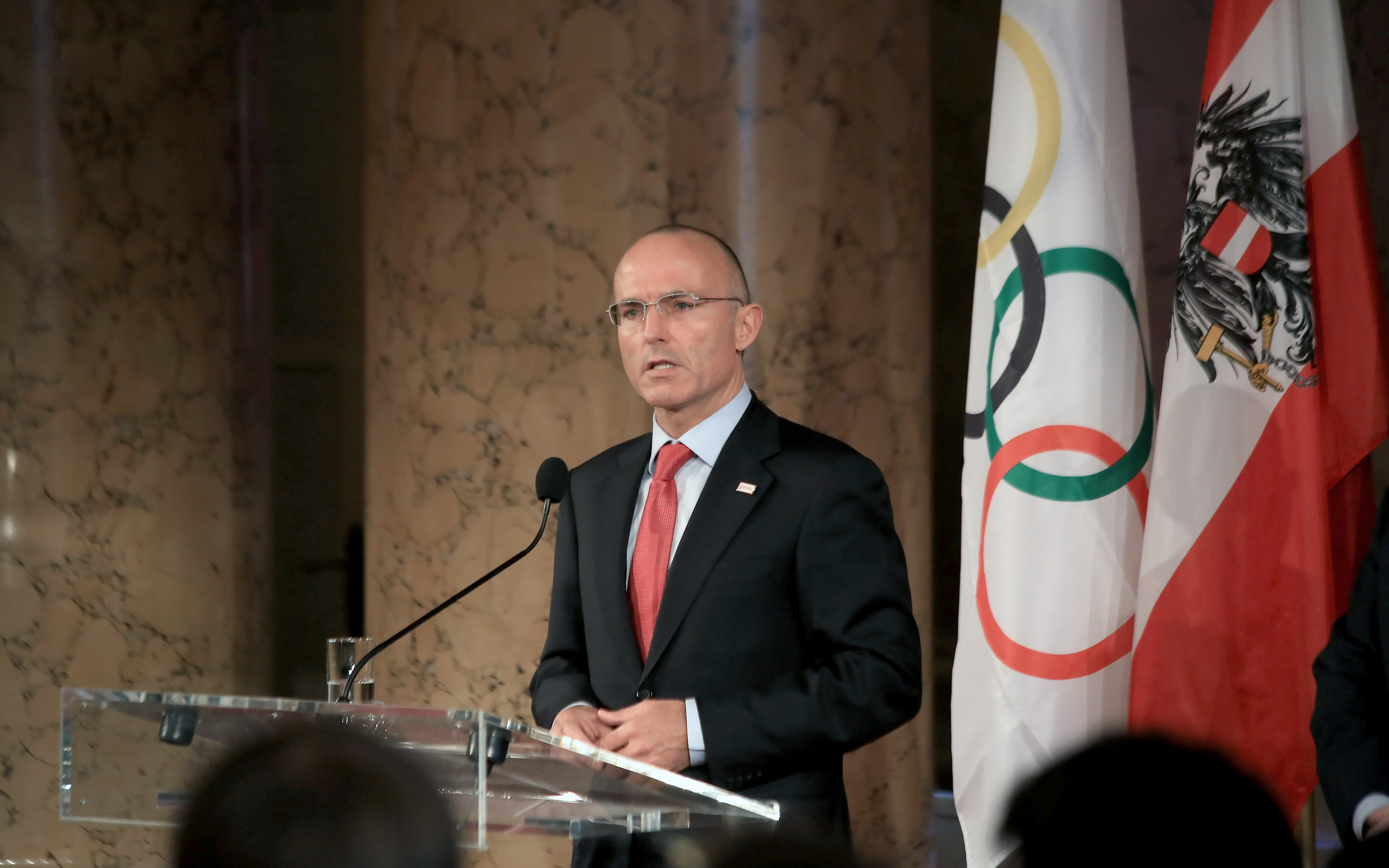 Reception of the Austrian team for the 2014 Winter Olympics by Federal President Heinz Fischer with Federal Minister Gerald Klug (Hofburg Palace in Vienna, Austria).